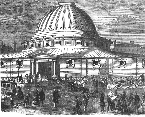 A view of the Great Globe which stood in Leicester Square between 1851 and 1862